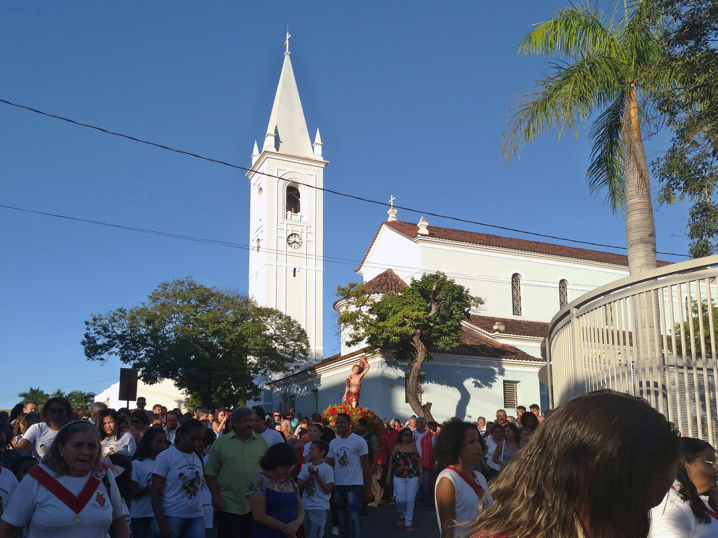 Saint Sebastian's day procession coming out of the Saint Sebastian Mother Church, in Coronel Fabriciano, Minas Gerais, Brazil.